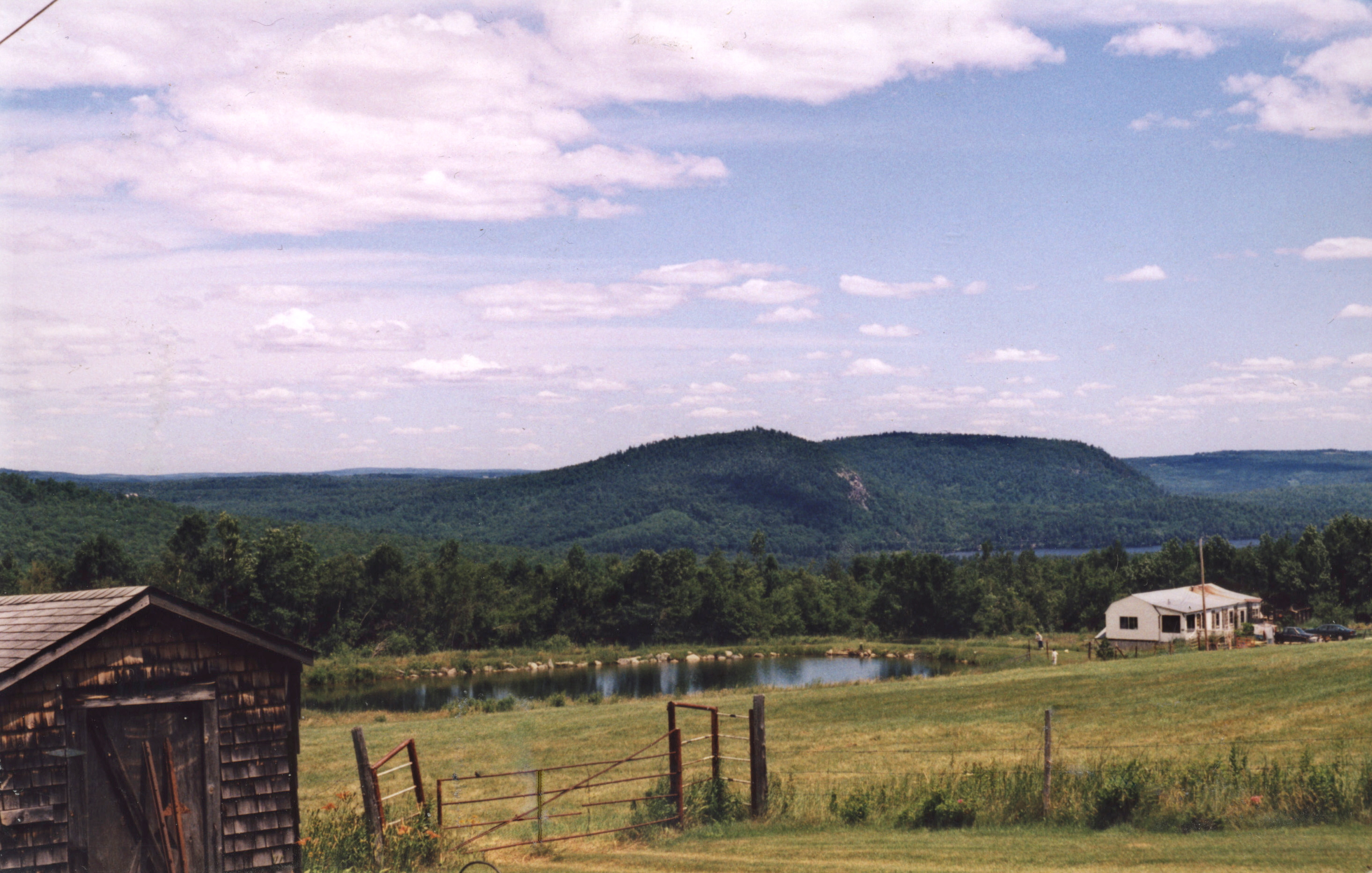 South Waterford from Blackguard Road, with Bear Mtn., Hawk Mtn., and Bear Pond in the mid-ground. Mount Tire'm is to the left. There was some tape residue on the picture (it was originally a panorama), and so it was photoshopped in small patches.